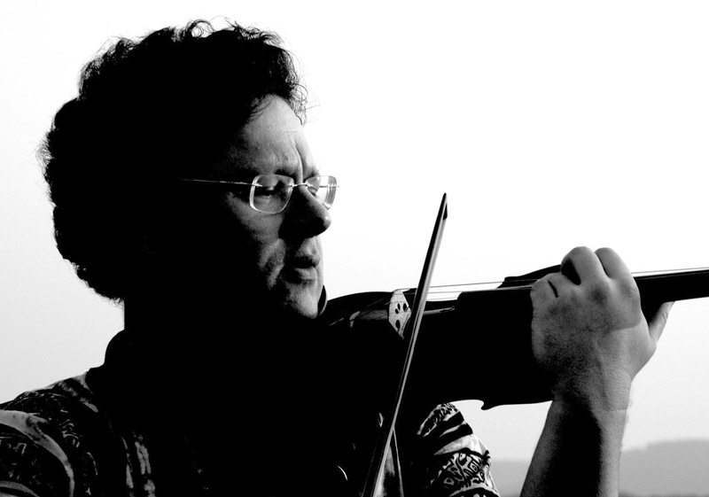 Nachum Erlich, violinst and music teacher